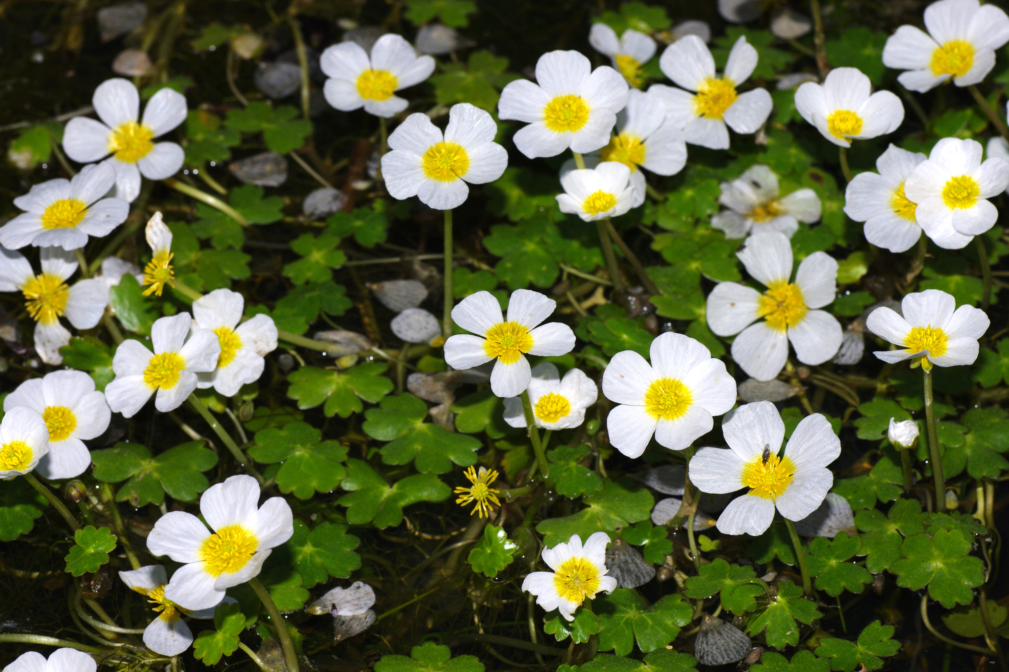 Flowering plants of Ranunculus peltatus (Ranunculaceae).